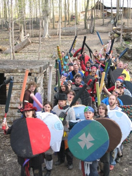 Amtgard fighters prepare to storm Castle Discord. Original Picture at